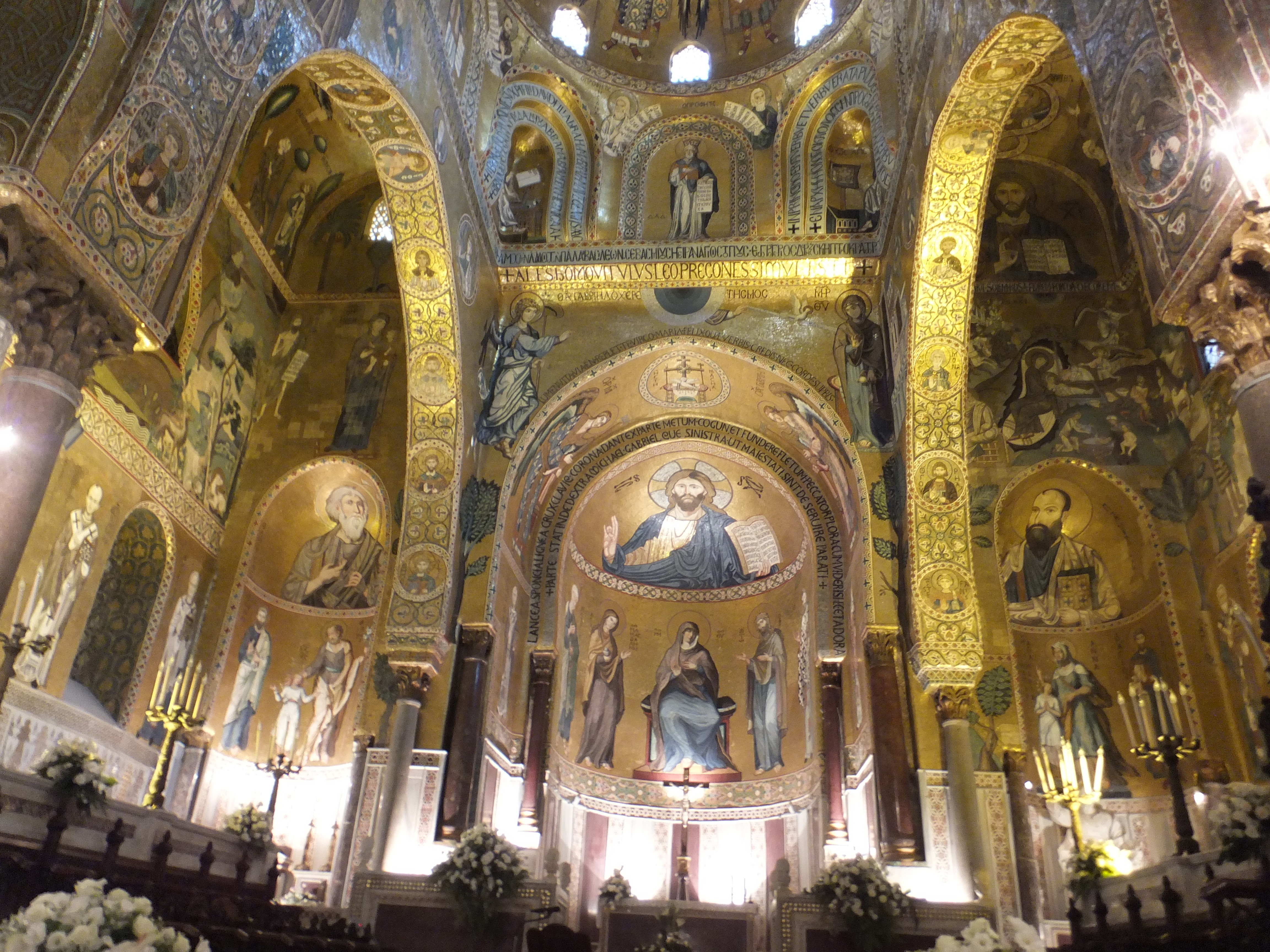 Cappella Palatina is the royal chapel of the Norman kings of Sicily situated on the ground floor at the center of the Palazzo Reale in Palermo.